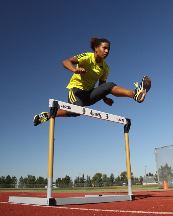 Angela Whyte posed hurdle shot 2010